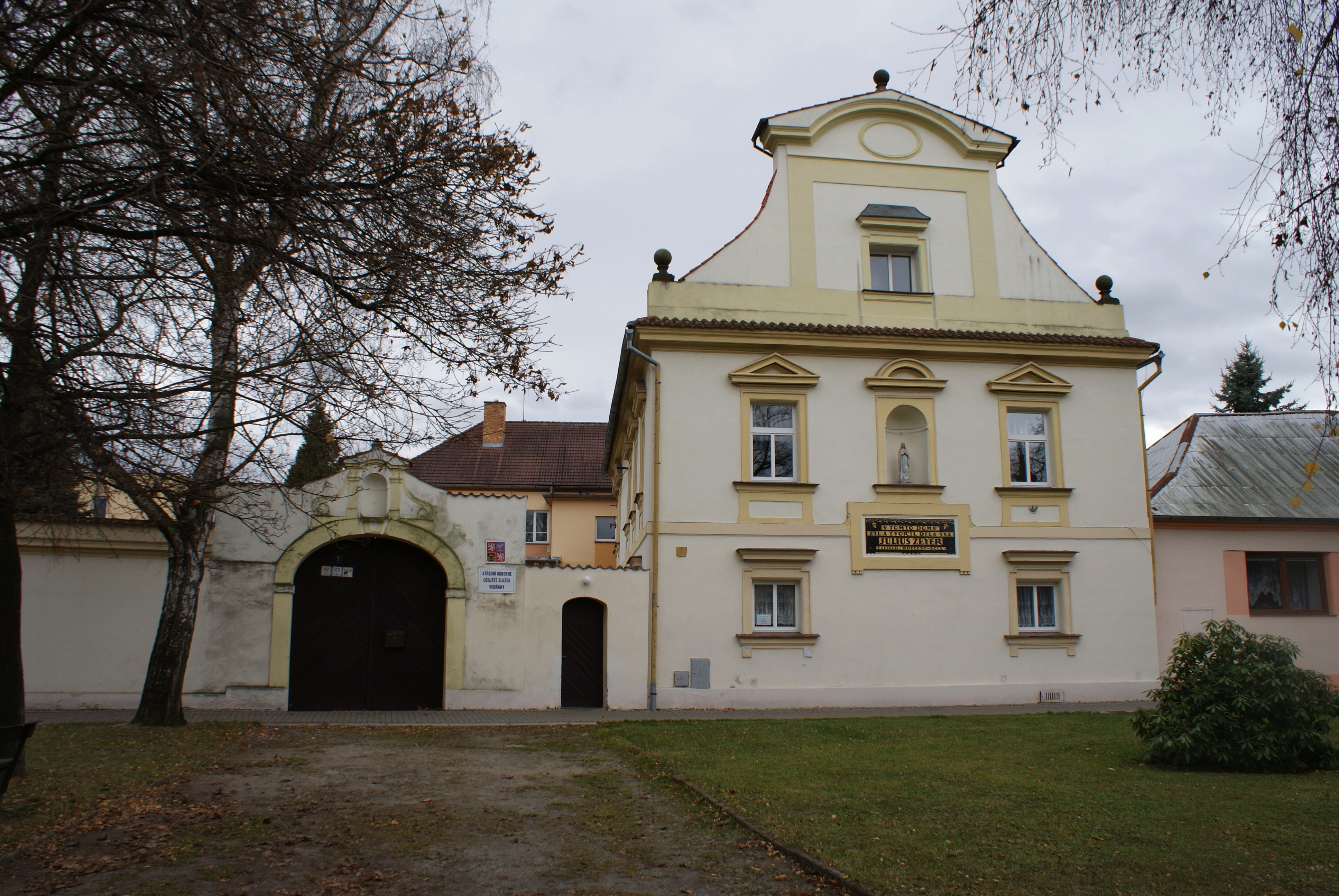 Vodňany a town in Strakonice district, Czech Republic, the house of a Czech writer Julis Zeyer.